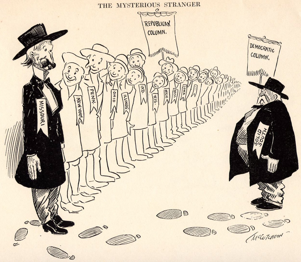 Political cartoon from 1904 US Presidential election. "The Mysterious Stranger". Depicts the state of Missouri leaving the "Solid South" (Democratic) to join the states voting Republican.